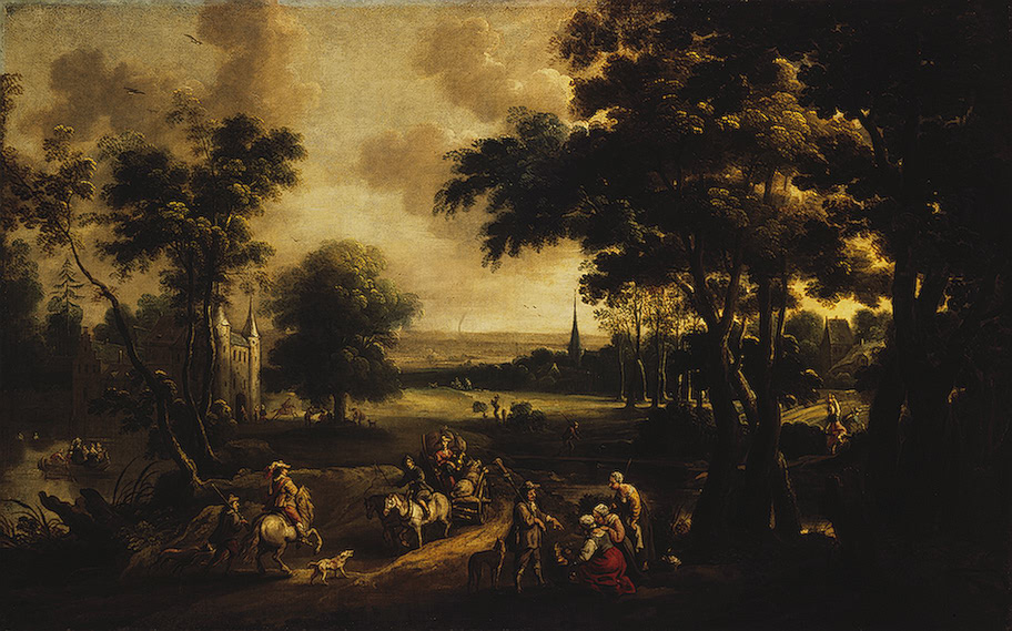 Landscape with a Castle and Hunters